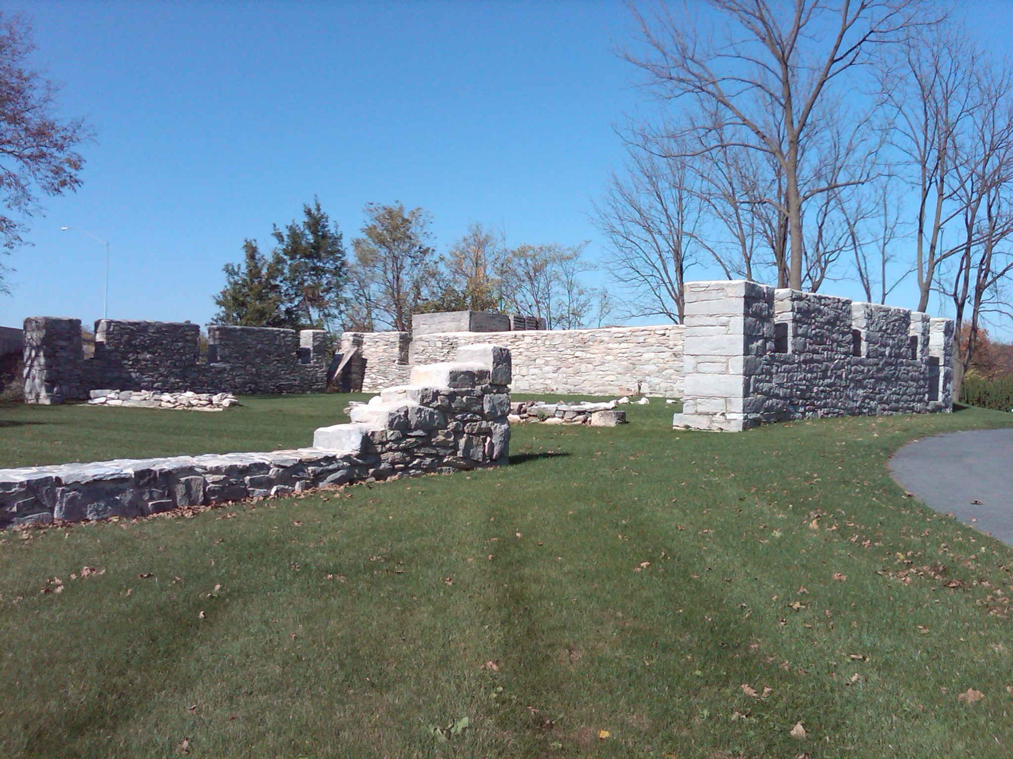 The Eberly Barn Foundation in Hampden Township, Pennsylvania, USA